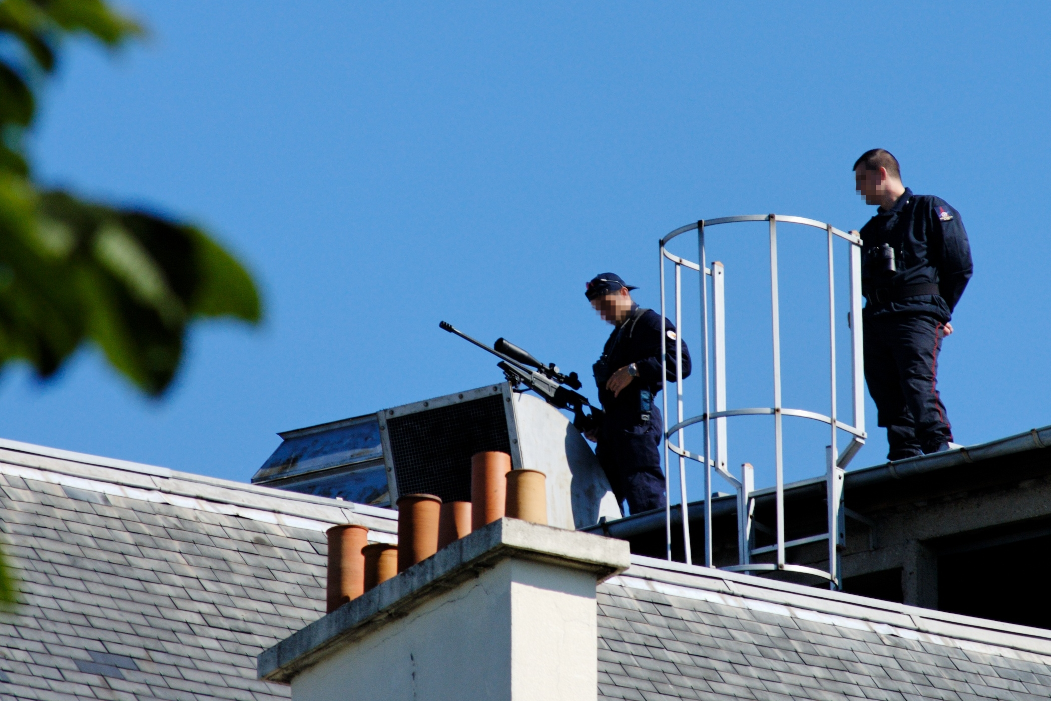 Two police snipers on the lookout before the Bastille Day 2008 military parade on the Champs-Élysées, Paris.